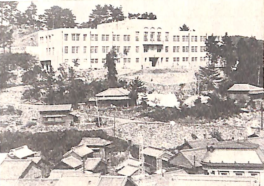 This is Toba common and higher elemntary school (Now Toba elementary school) in Toba, Mie, Japan.